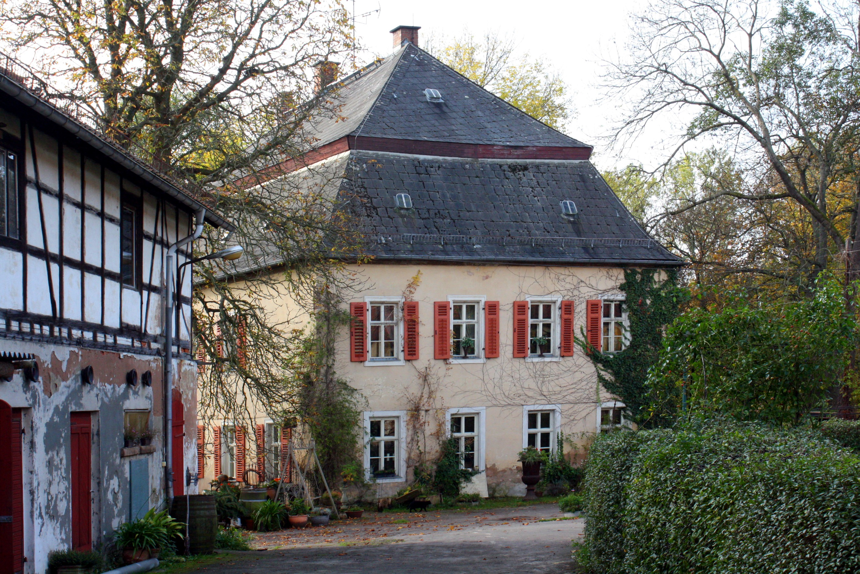 Manor house in Endschütz near Gera/Thuringia